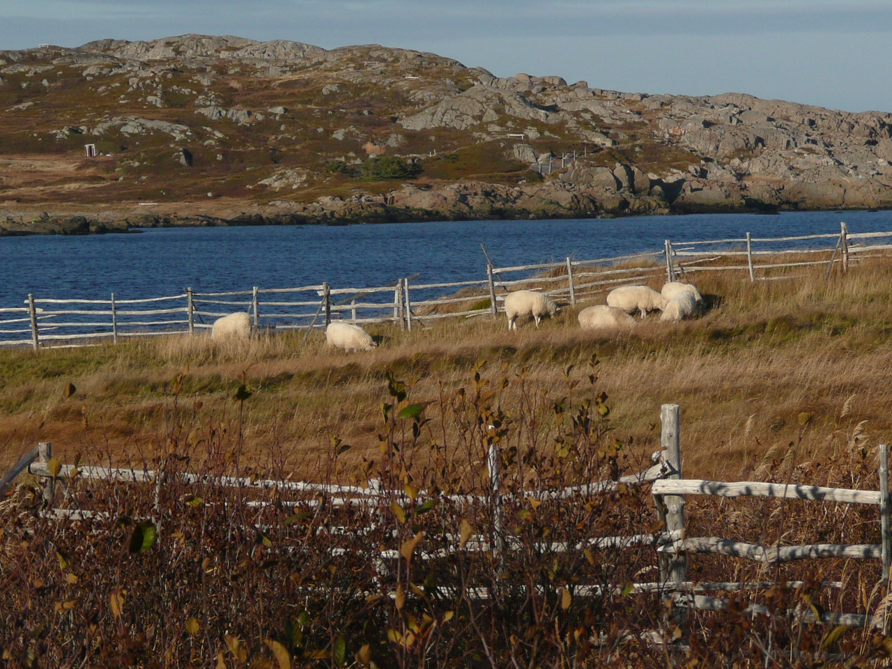 Sheep Sandy Cove - Tilting